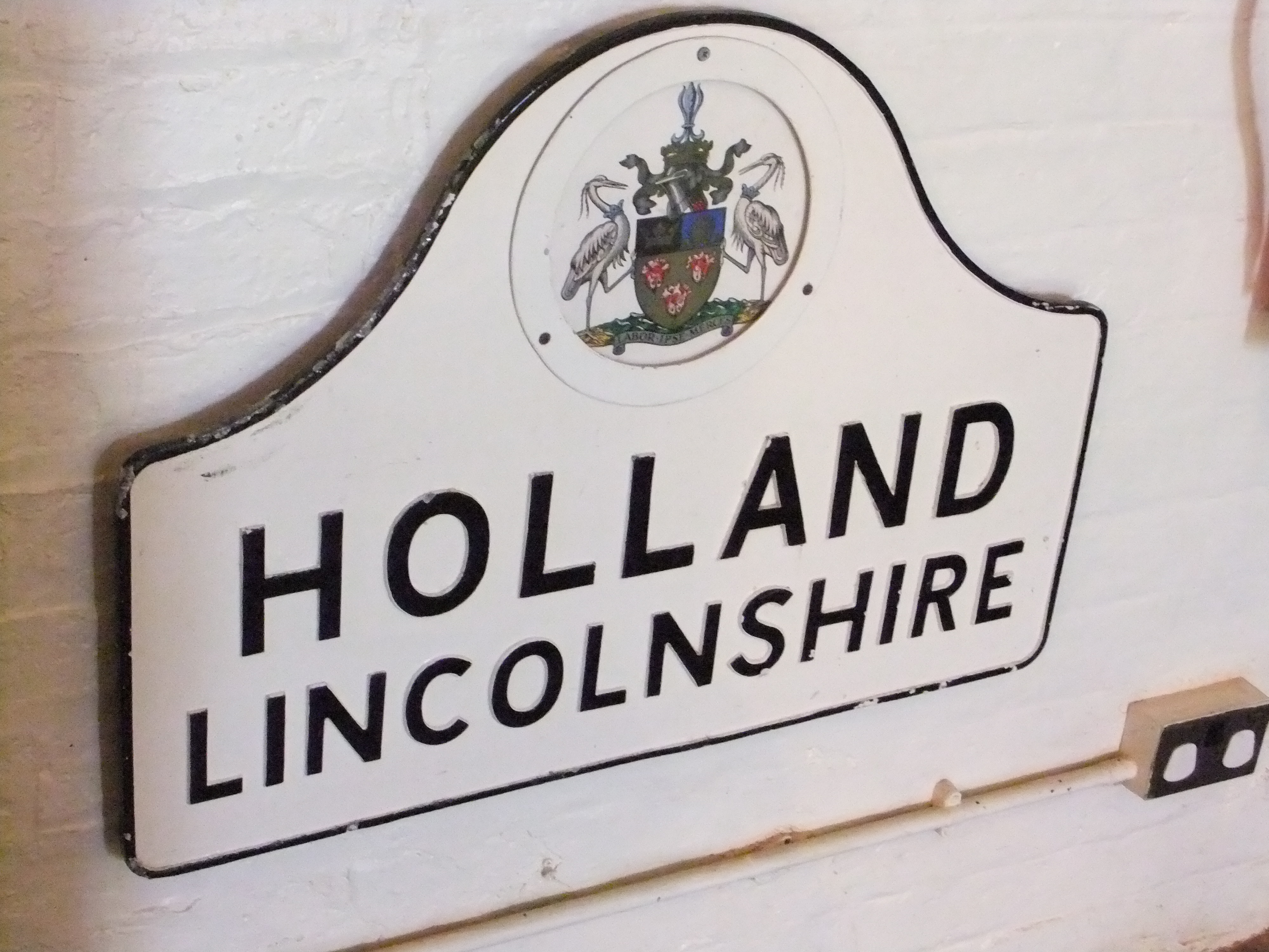 Holland sign. Photo taken at The Museum of Lincolnshire Life, Lincoln, England.